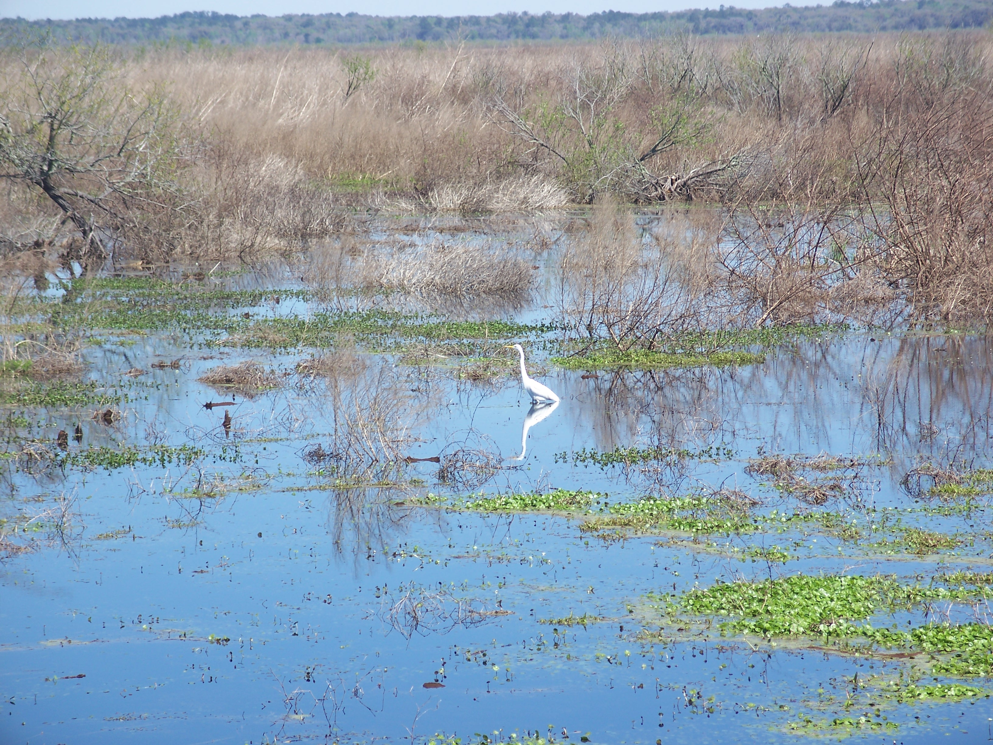 A Great Egret at Paynes Prairie, viewed from the US 441 overlook.